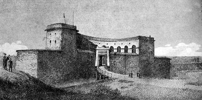 Steel engraving of the fortress Fort Wilhelm (Fort William) built 1830–1834 by the state of Hanover at the entrance to the habor of Bremerhaven, Germany. Dismantled in 1874.